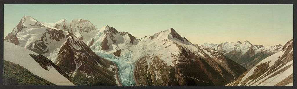 Mt. Fox and Mt. Dawson from Asulkan Pass, Selkirk Mountains (LOC) Detroit Photographic Co. Mt. Fox and Mt. Dawson from Asulkan Pass, Selkirk Mountains c1902. 1 photomechanical print : photochrom, color. Notes: Copyright 1902 by Detroit Photographic Co. Title from item. Title on inventory list: Mt. Fox & Mt. Dawson, Asulkan Pass, Selkirk Mtns. Caption for similar image (LC-D4-14666 ) lists title as: [Mt. Fox, Mt. Dawson and Mt. Donkin with Dawson's Glacier, Selkirk Mountains, B.C.]. Detroit Publishing Co. no. "50216". Forms part of: Photochrom Print Collection. Subjects: Mountains. Glaciers. Passes (Landforms). Canada--British Columbia--Selkirk Range. Format: Panoramic views--Color. Photochrom prints--Color. Repository: Library of Congress, Prints and Photographs Division, Washington, D.C. 20540 USA, More information about the Photochrom Print Collection is available at Persistent URL: Call Number: LOT 13923, no. 493 [item]